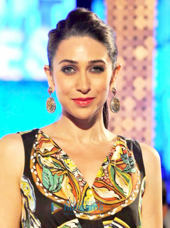 Karisma Kapoor judges '4th Indian Princess'